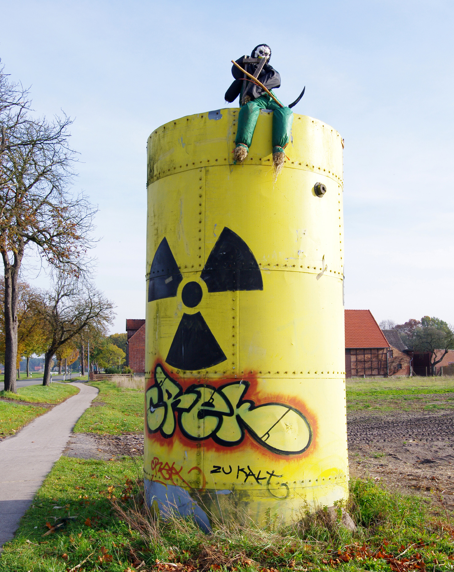 Creative expression of protest by the population in the Wendland (district Lüchow-Dannenberg) against German nuclear policy, the annual "Castor" transports to interim storage facility for German highly radioactive nuclear waste and the plans for a repository for highly radioactive nuclear waste in the salt dome Gorleben-Rambow. The picture was taken in Klein Gusborn in the district Lüchow-Dannenberg.